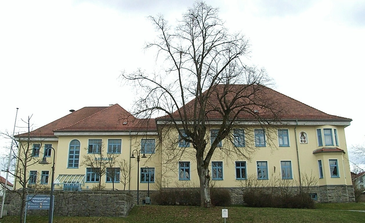 Town hall of Ruhmannsfelden.